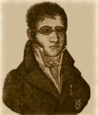 Juan Bautista Arriaza, Retrato del Semanario Pintoresco Español (1836-1857), Año VII Tomo IV, Núm. 20, 15 de mayo de 1842, pág. 153